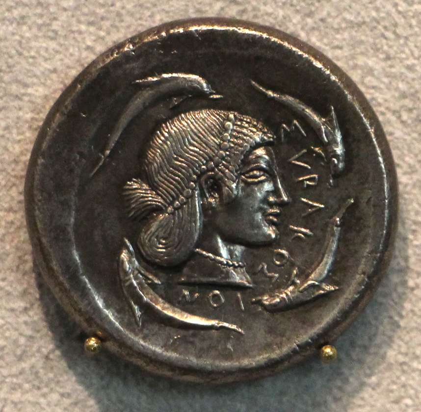 Ancient Greek coins in the Altes Museum Berlin